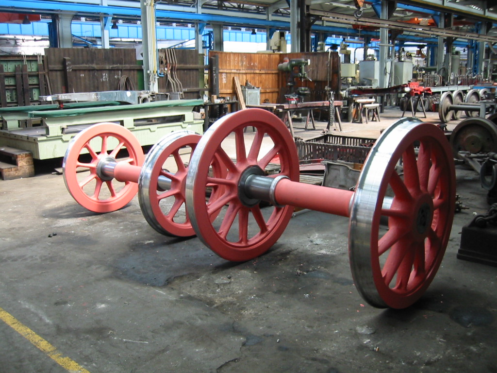 Bogie wheels